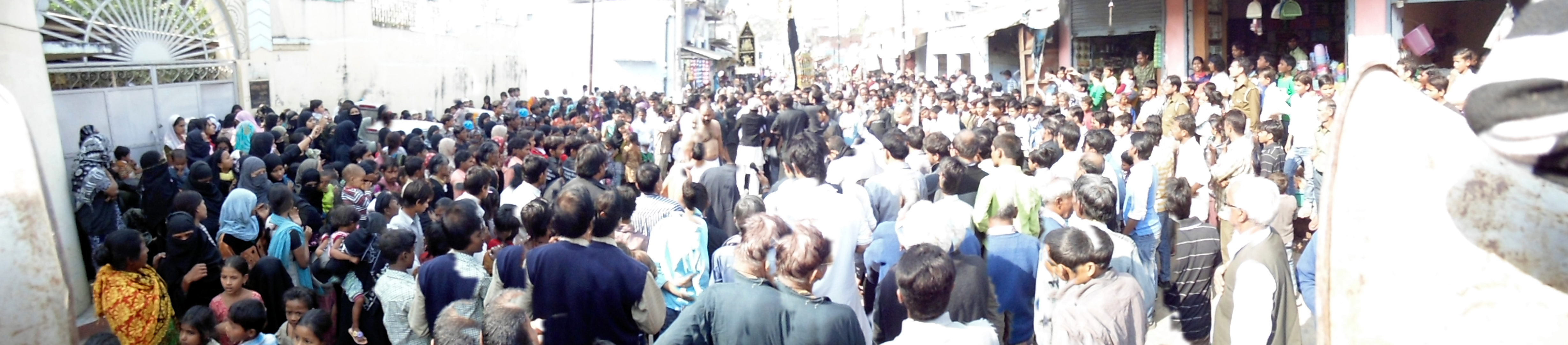 Ashura procession( 25-11-2012 )on Ashurkhana Sakina Begum Road, Hardoi